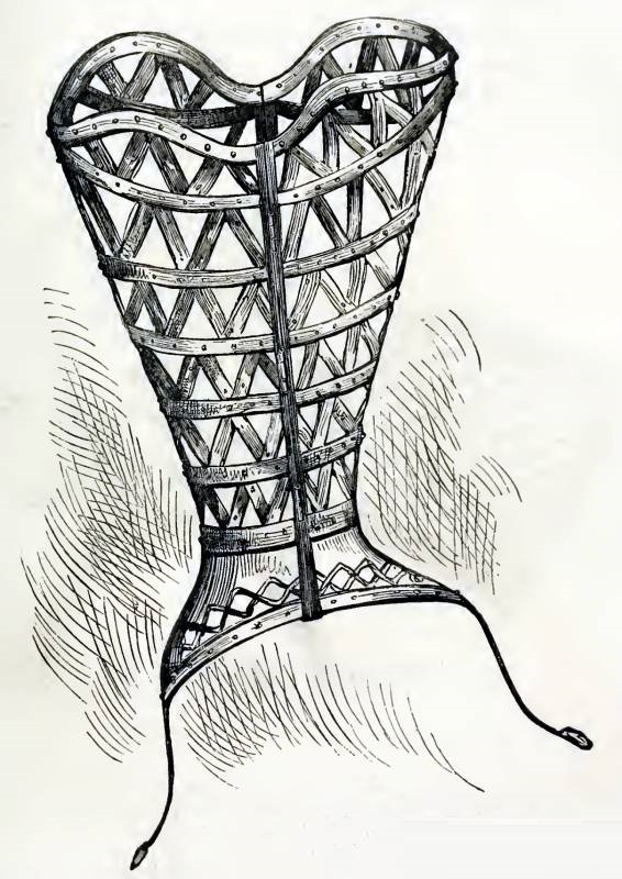 1868 fetishistic image claiming to show a 1530s metal corset.